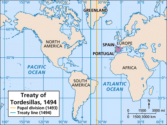 Treaty of Tordesillas, 1494